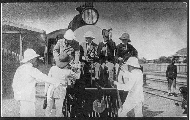 Theodore Roosevelt and traveling companions mount the observation platform of the Uganda Railway.